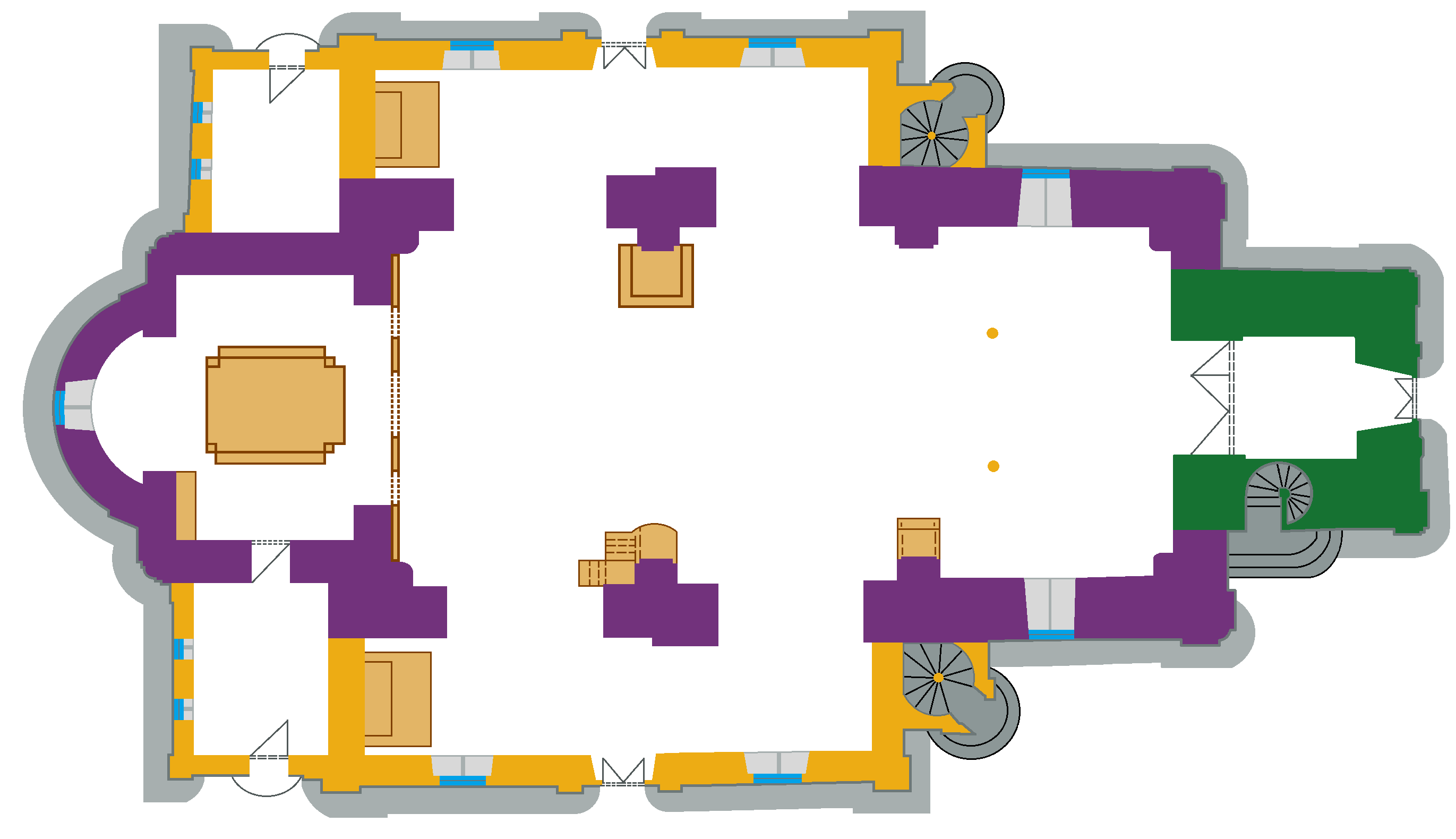 The ground plan of the Greek Catholic Cathedral of Hajdúdorog, Hungary. The cathedral was built in three different historical period. The oldest part of the church is coloured green. Originally the Hajduk built a watchtower in the early 17th century that served as the basis of the current cathedral's bell-tower. The second oldest part is coloured purple: eparch András Bacsinszky started to build a baroque style church in 1752. The youngest part of the church is marked with yellow. The church was extended with two other naves by 1872. With brown you can see the placement of the cathedral's most important furniture: in the apse the main altar and the preparation altar takes place; the iconostasis closes the apse; in the main nave you can see the pulpit and the episcopal throne.